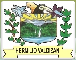 escudo